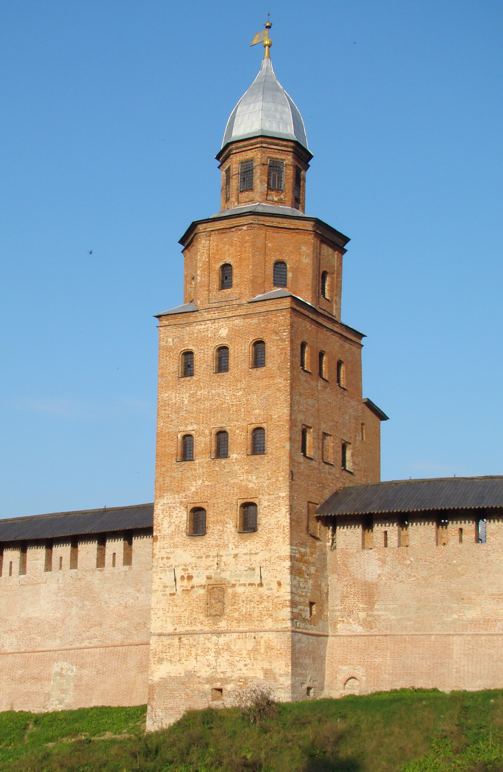 Kokoy Tower in Velikiy Novgorod Detinets